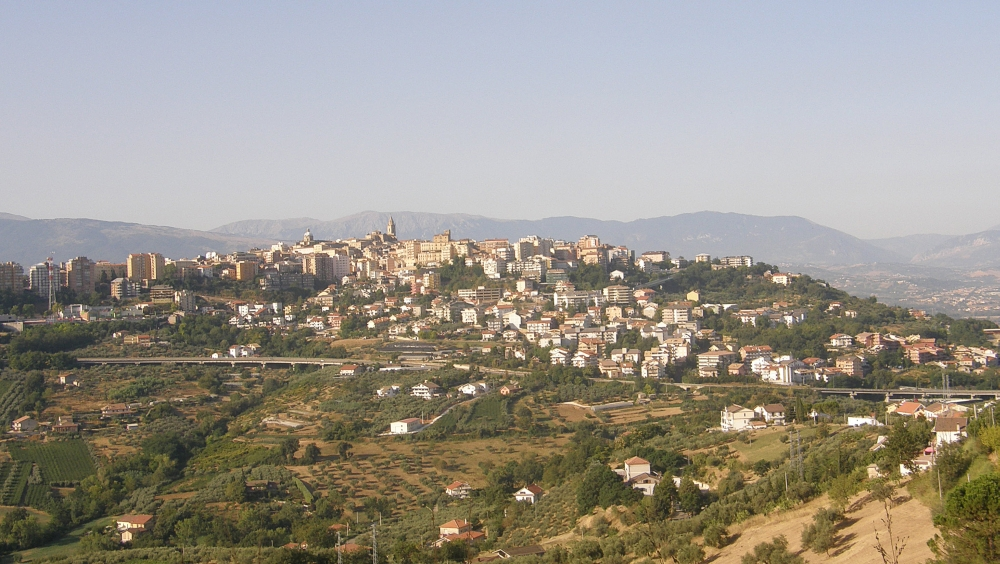 Chieti